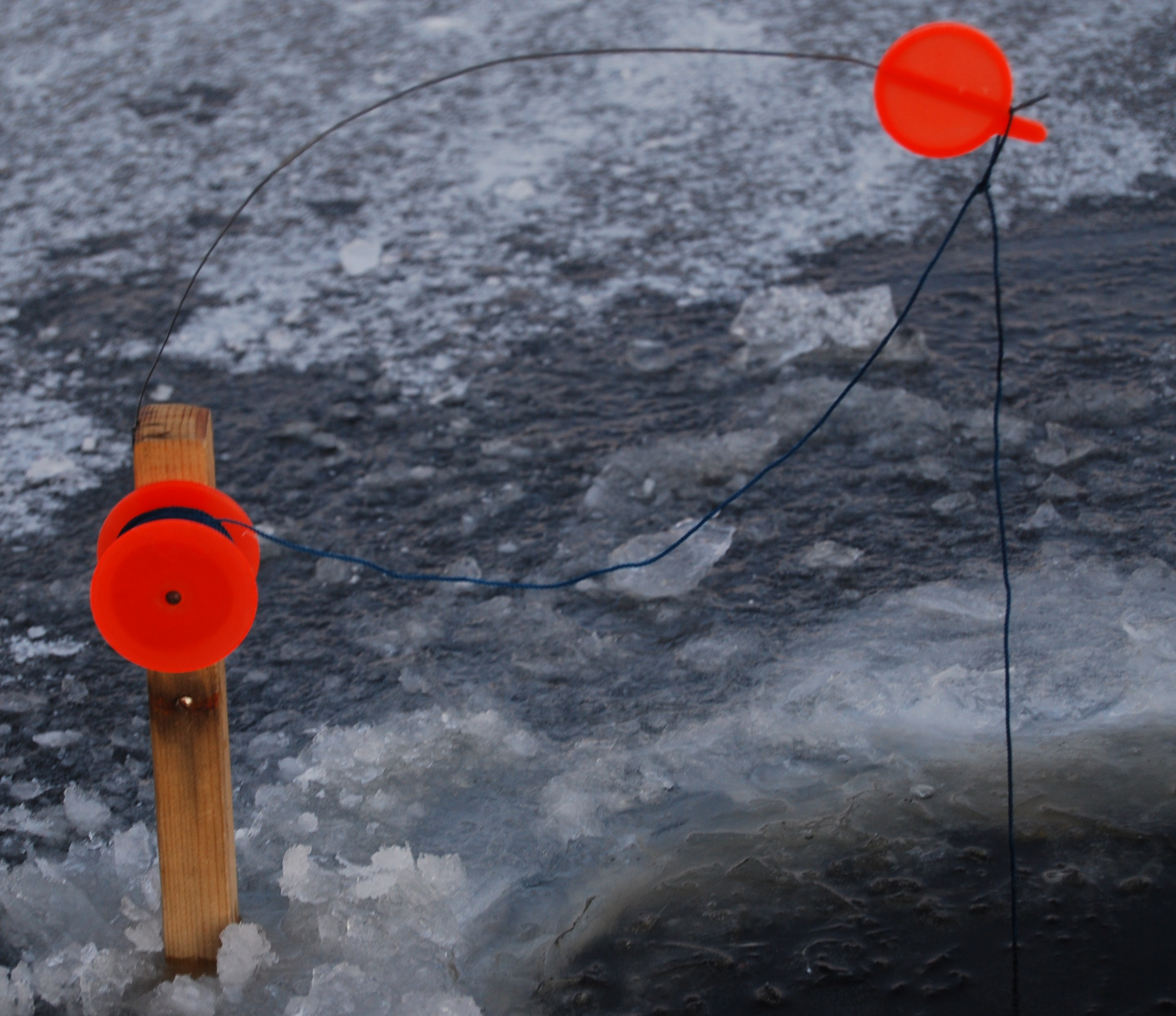 An "angeldon" Swedish winter-fishing equipment, made for catching pike.